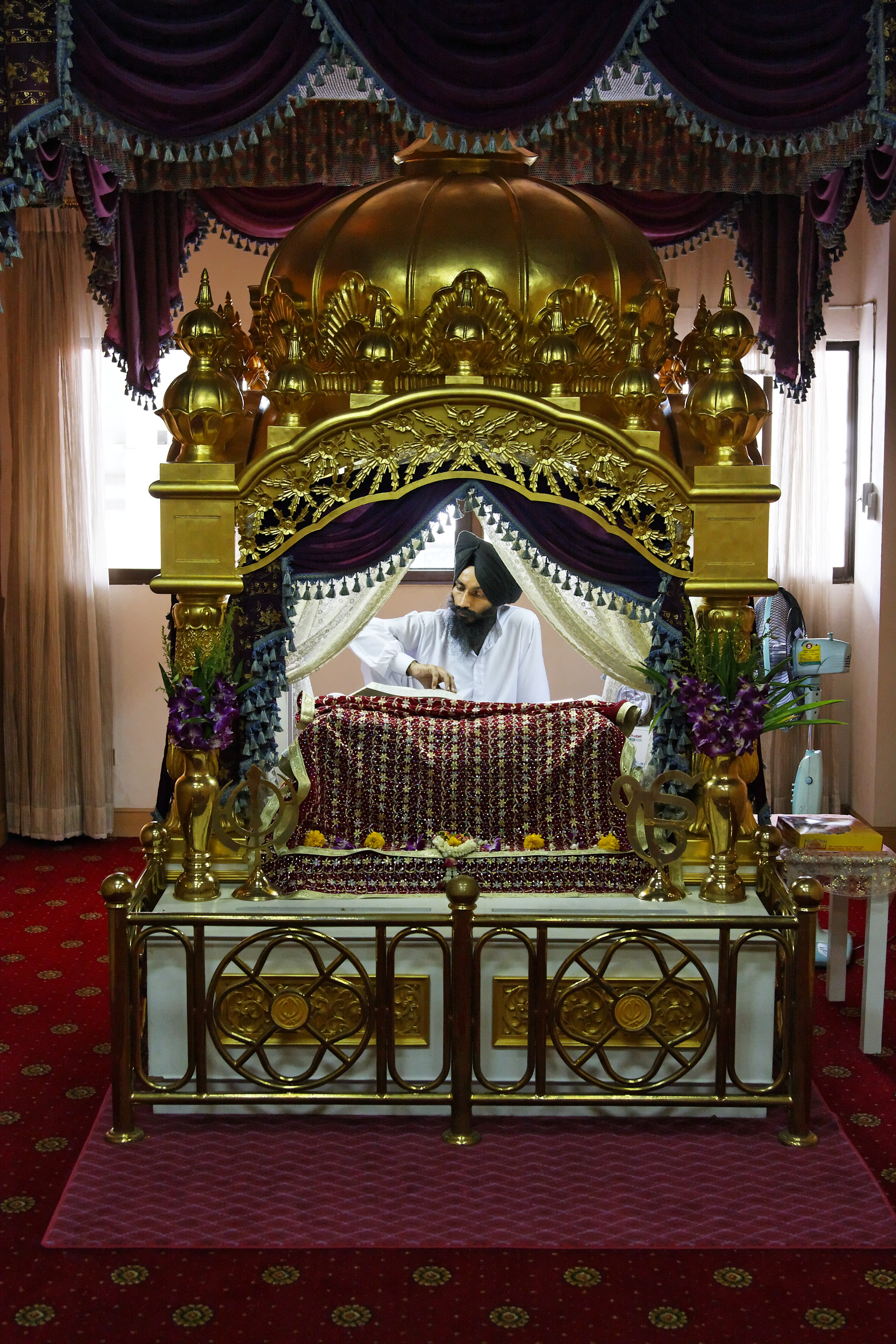 Gurdwara Sri Guru Singh Sabha, Bangkok, Thailand